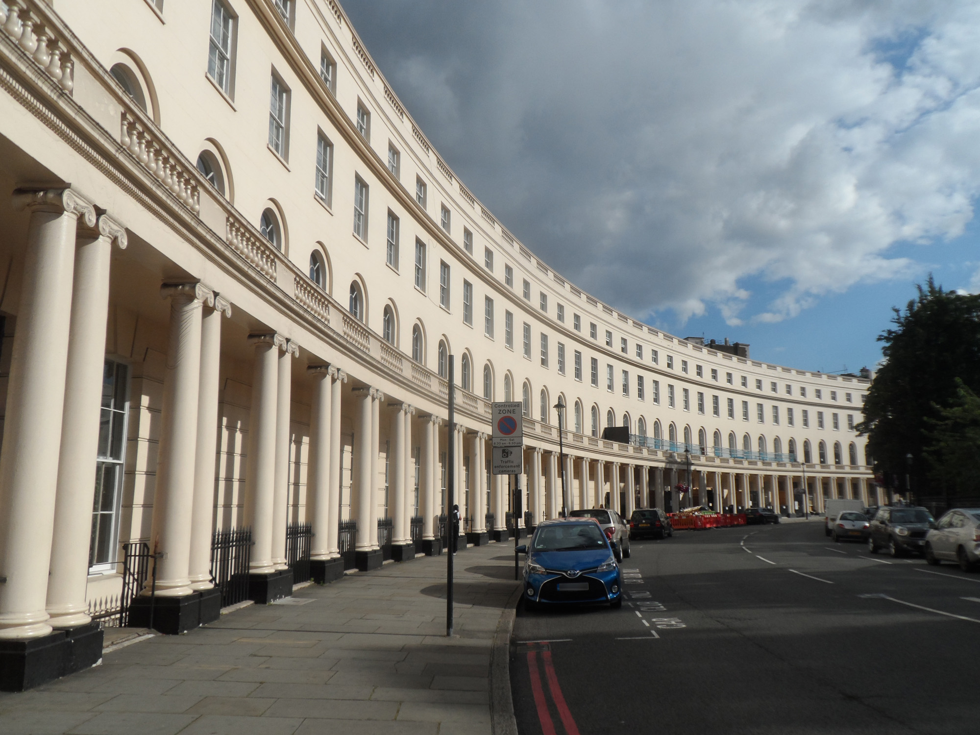 Park Crescent is at the north end of Portland Place and south of Marylebone Road in London